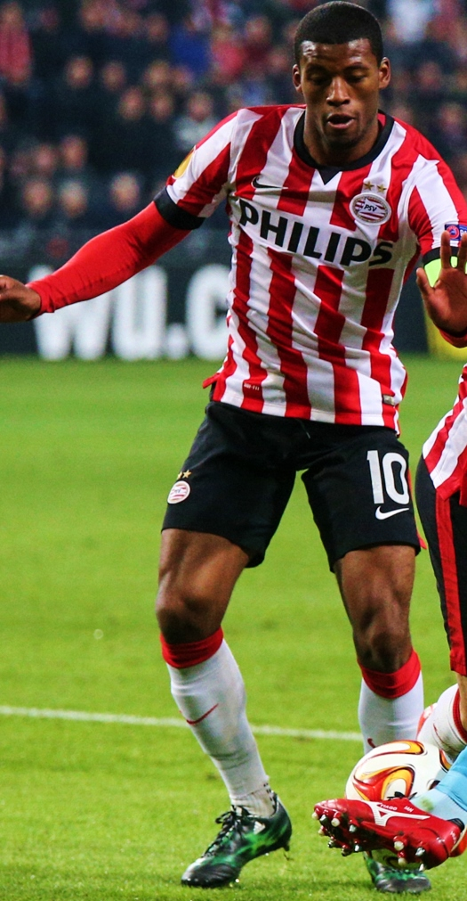 Georginio Wijnaldum